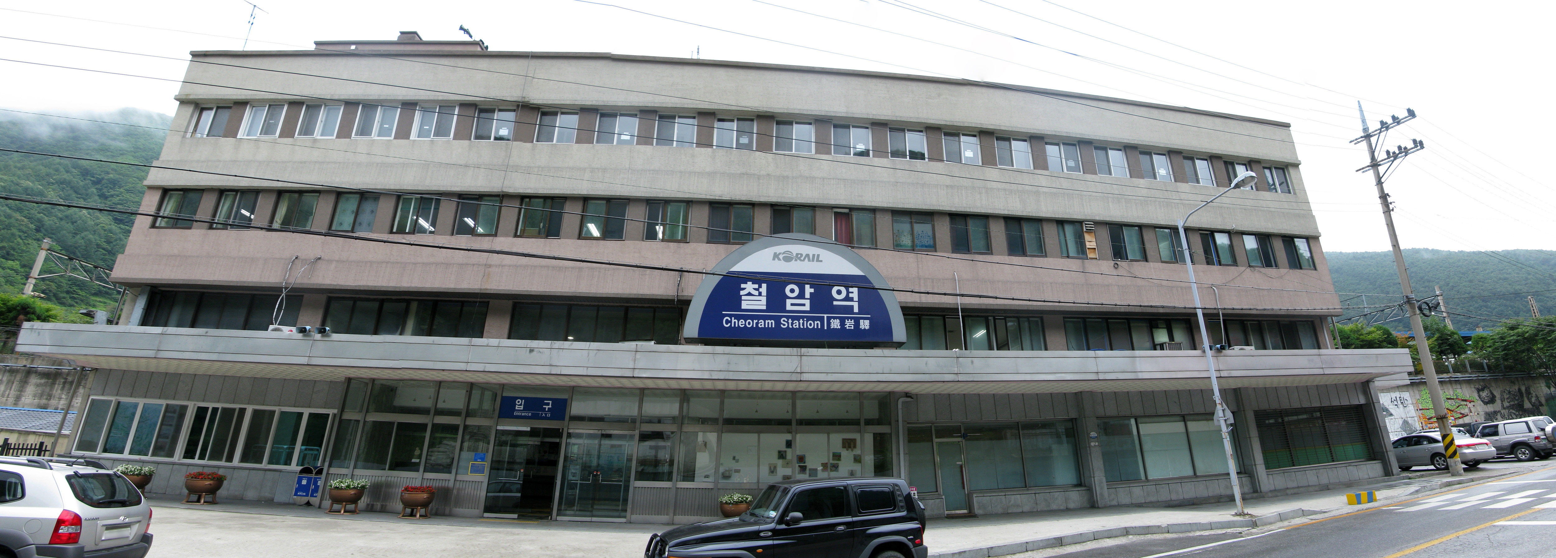 Yeongdong Line Cheoram Station